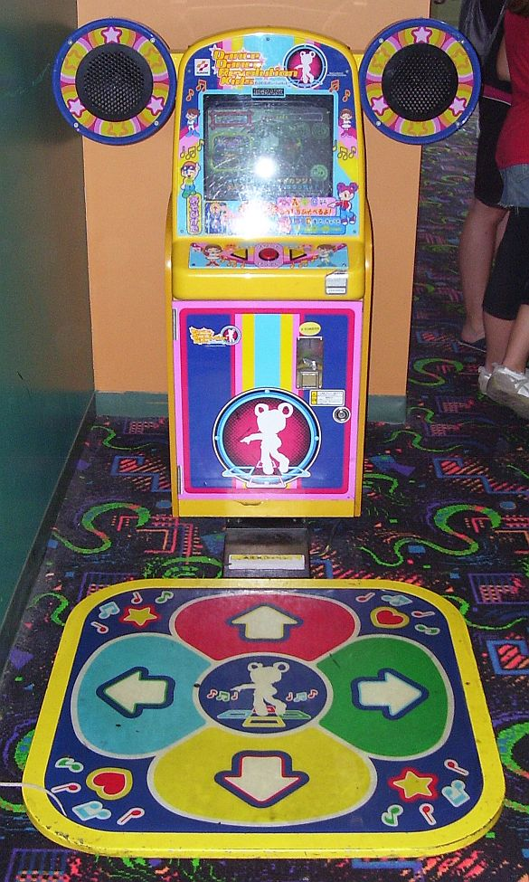 Picture of a Dance Dance Revolution Kids machine.